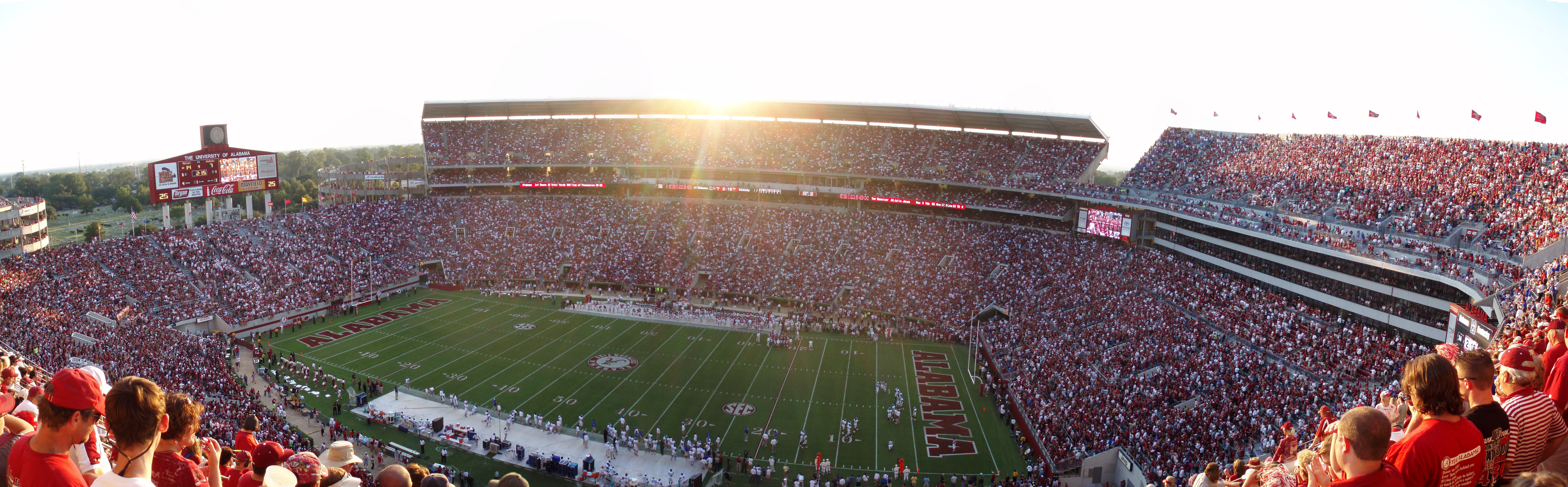 Bryant-Denny Stadium during the fourth quarter of a game between the Alabama Crimson Tide and Kentucky Wildcats.